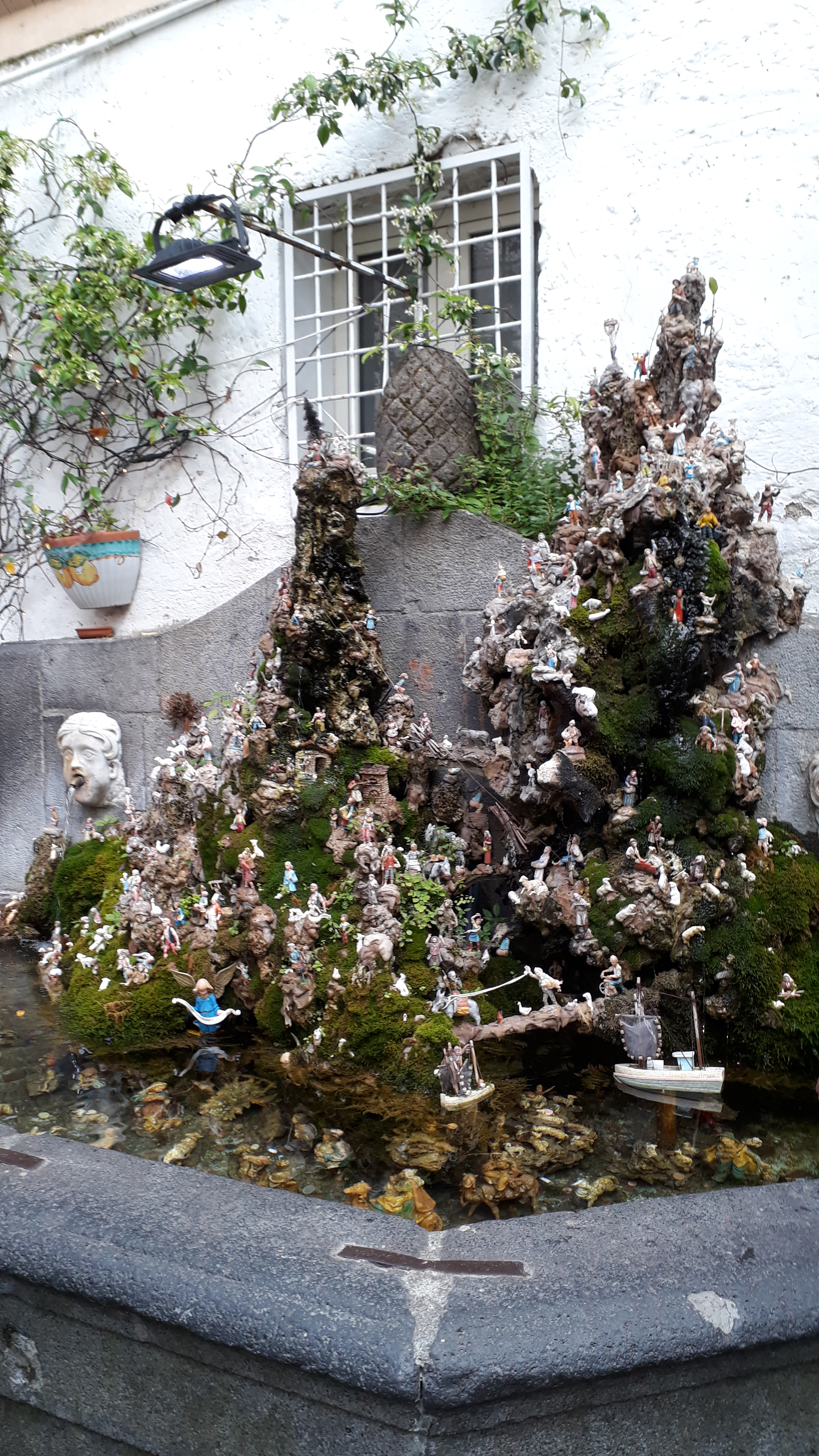 The "Cap 'e Ciuccio Fountain in Amalfi (Italy)